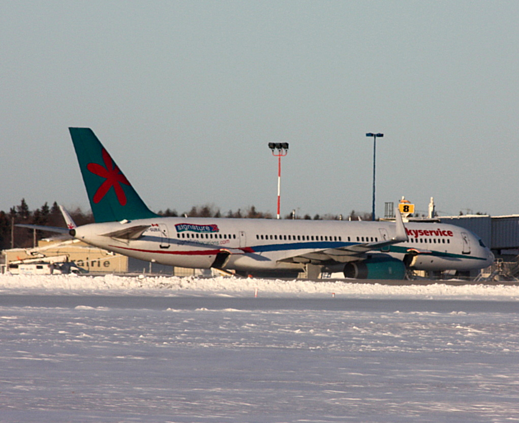 Skyservice B757-200 at gate 8 at YQR.